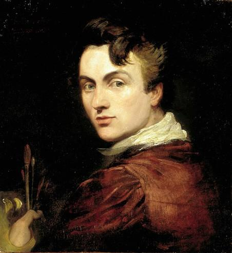 Self portrait of Sir George Hayter, painter in ordinary to Queen Victoria. Body in profile, holding a palette. Inscribed Geo Hayter M.A.S.L. aetat 26 1820 ipse pinxit